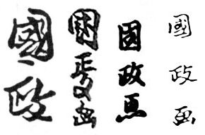 Signatures of Kunimasa